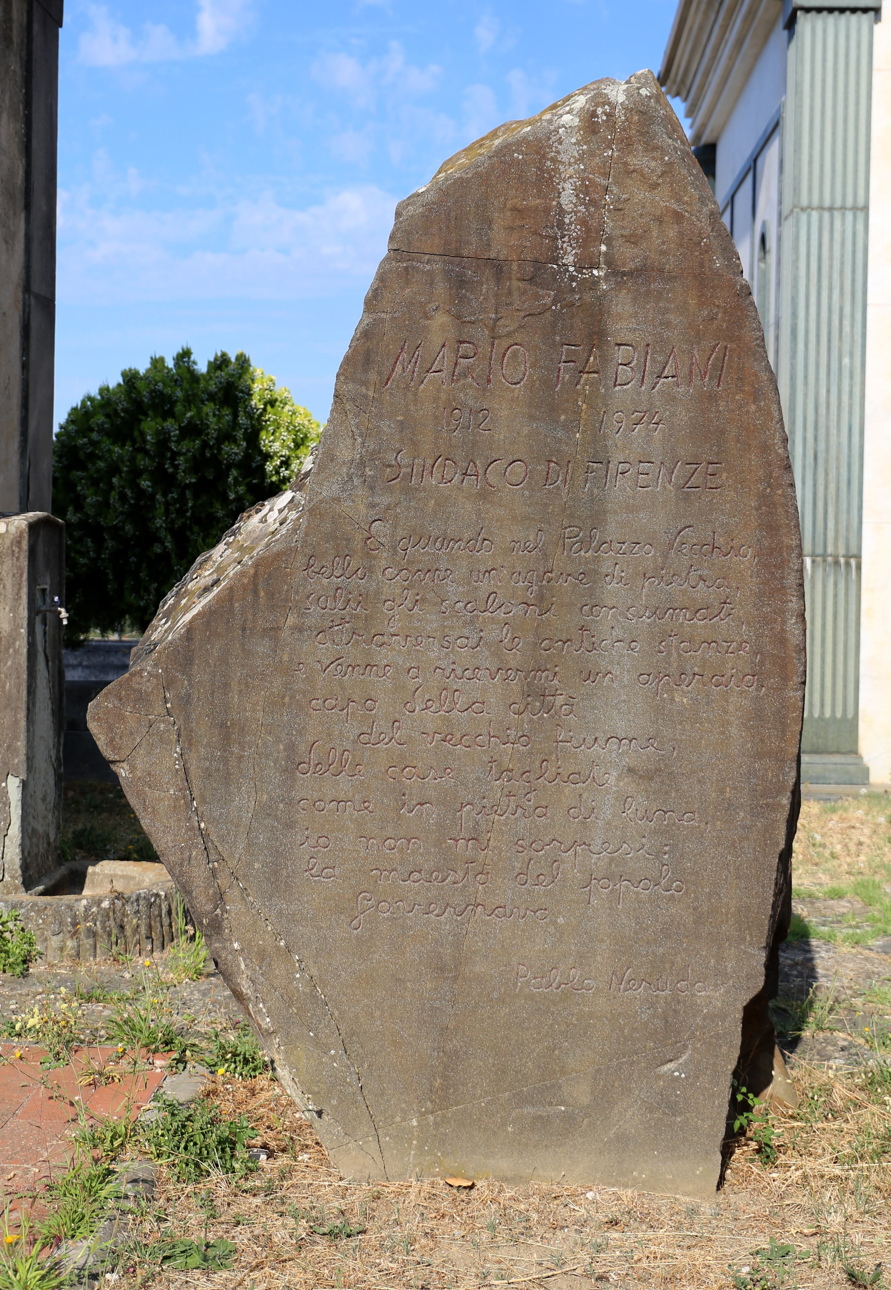 Trespiano cemetery